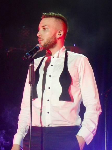 Italian singer-songwriter and rapper Briga (Mattia Bellegrandi), Never Again Live Tour, ATLANTICO LIVE, Rome, 2015.